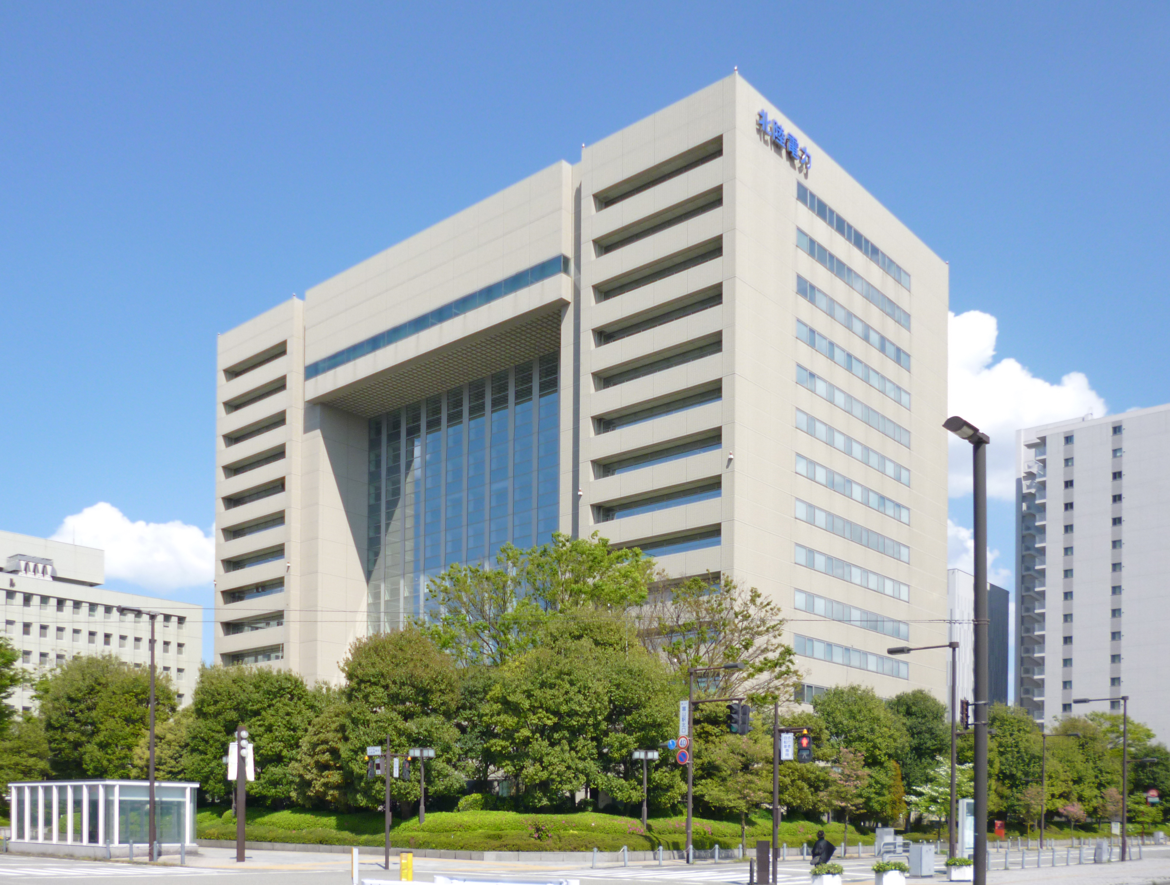 Hokuden Building in Toyama, Toyama, Japan.The Headquarters of Hokuriku Electric Power Company.